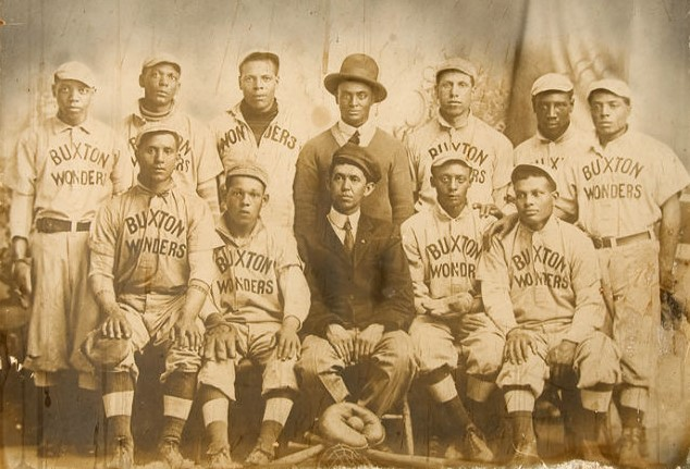 Image cropped from a sepia tone photo of the Buxton Wonders, a baseball team from Buxton, Iowa that played from approximately 1900 to 1920.